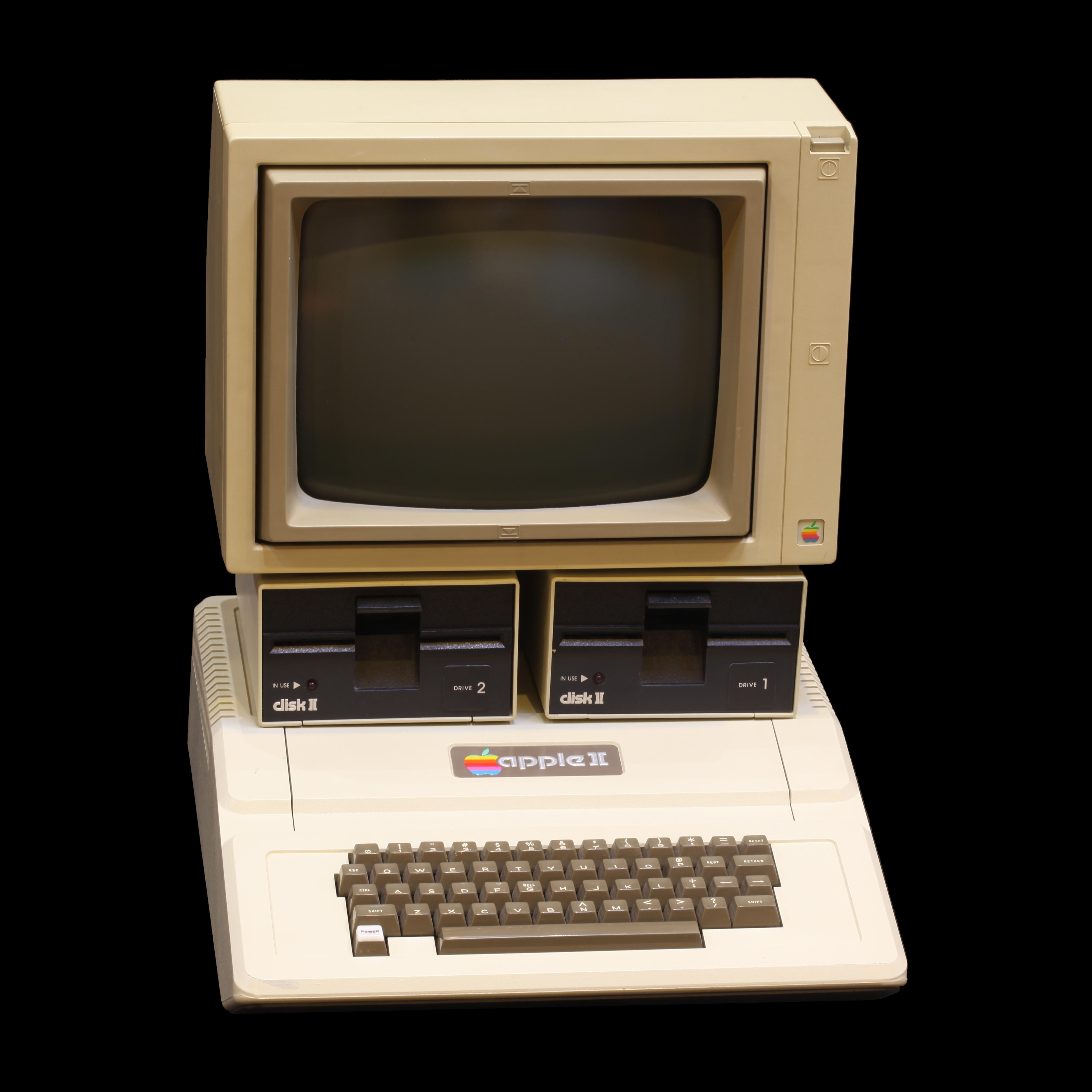 Apple II computer. On display at the Musée Bolo, EPFL, Lausanne.